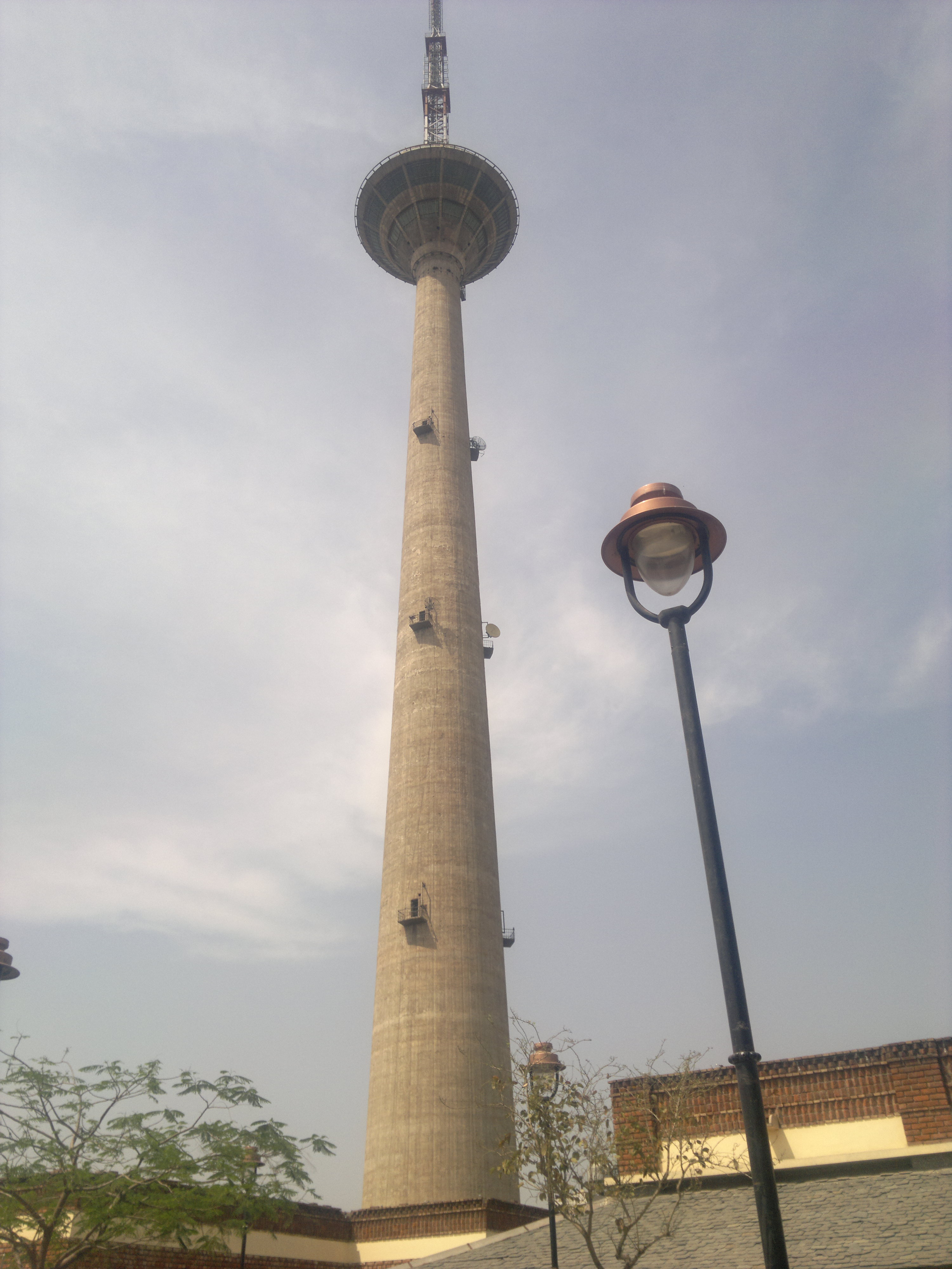 Pitampura TV tower is a landmark ( very hard to miss that thing )